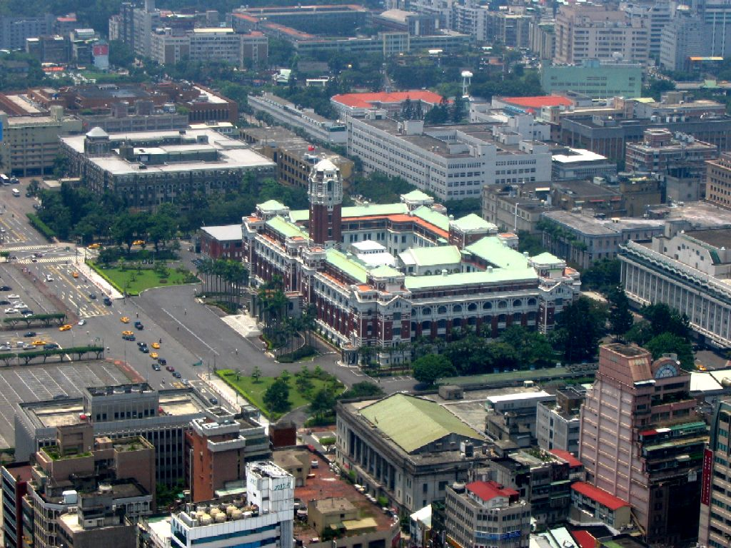 The Presidential Building in Taipei City. On the upper left of Presidential Building is Judicial Yuan Building. Picture taken the observation deck of the Shin Kong Life Tower.